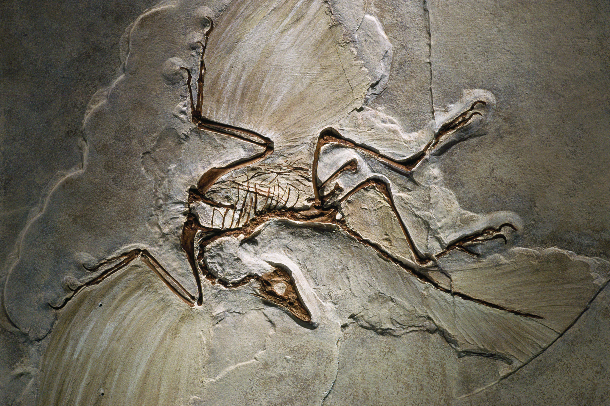 Archaeopteryx lithographica, found in the Jurassic Solnhofen Limestone of southern Germany.